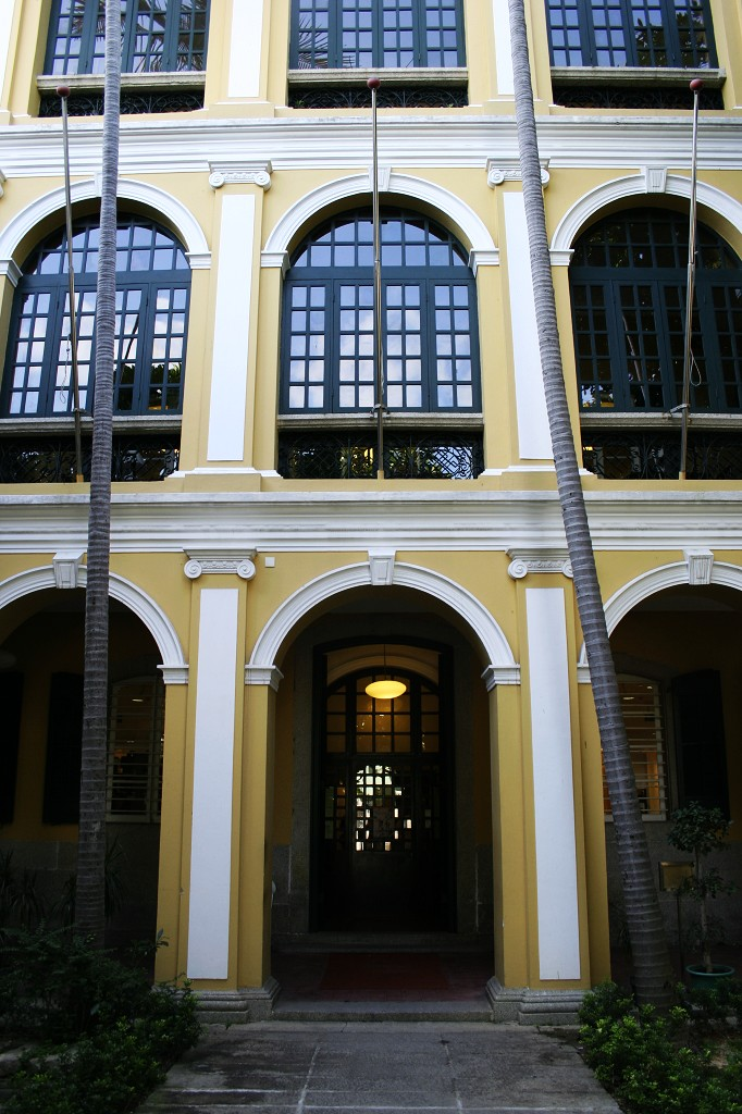 Sir Robert Ho Tung Library, Macau.